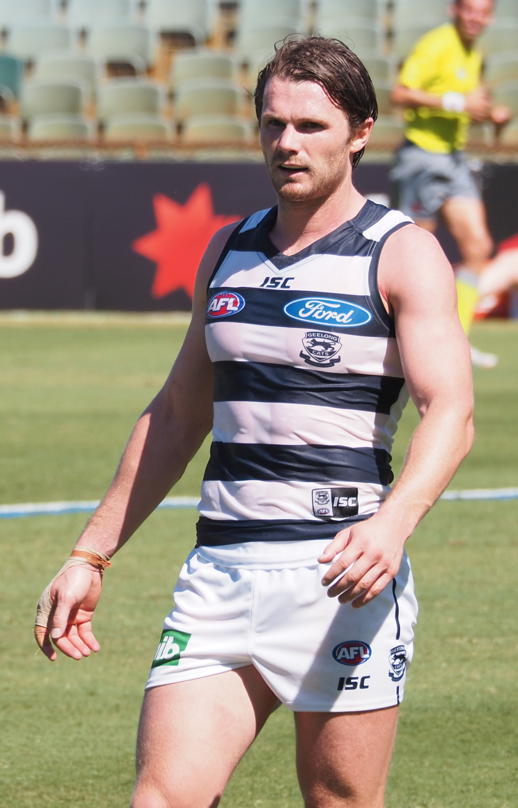 Patrick Dangerfield playing for the Geelong Football Club in March 2016